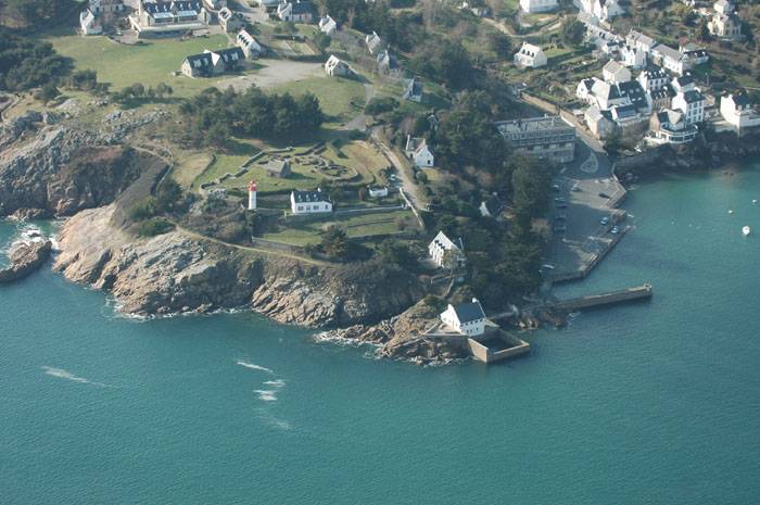 Port Manech aerial view